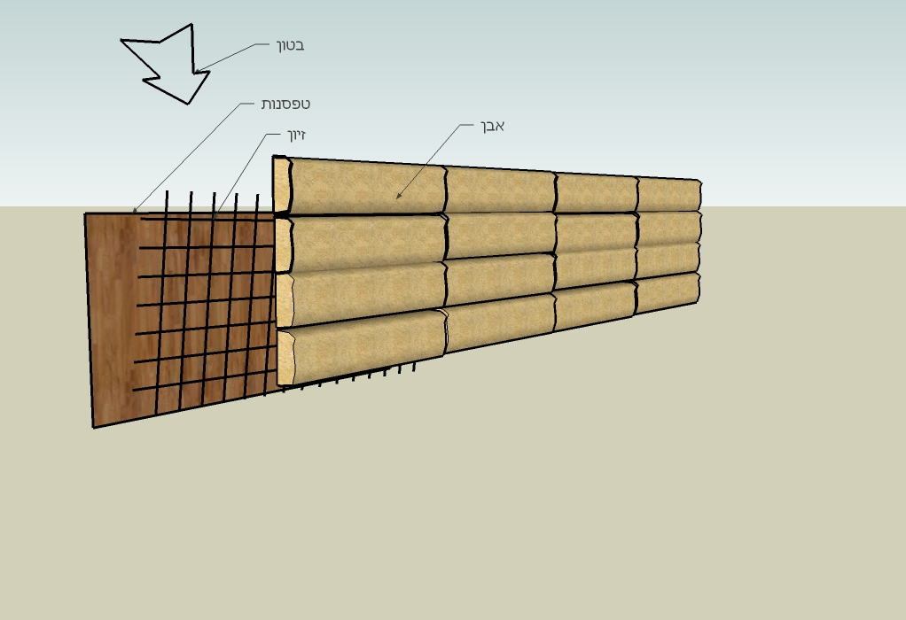 Complex stone building